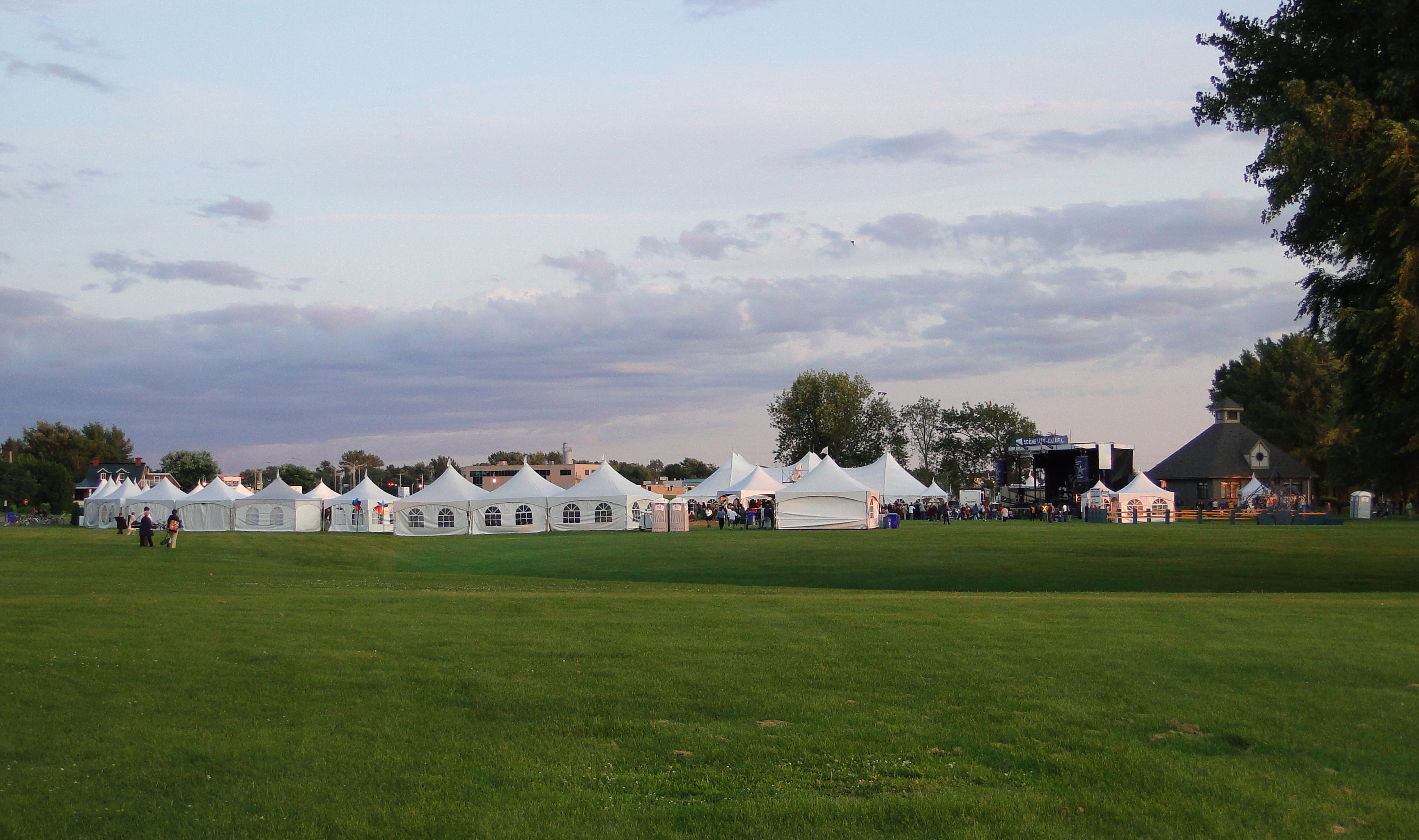 Les Grands Airs de Varennes at Parc de la Commune, Varennes, province of Quebec, Canada